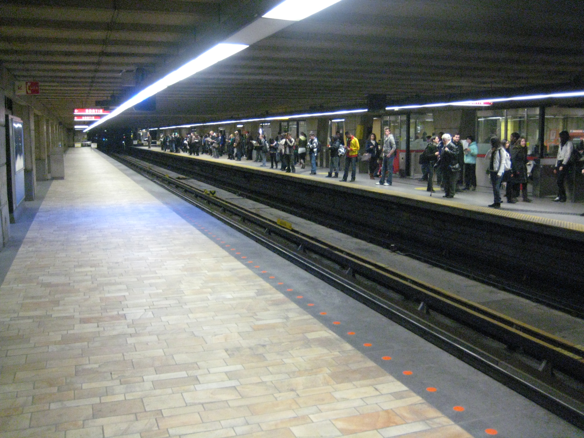 Longueuil–Université-de-Sherbrooke Metro station platform.jpg